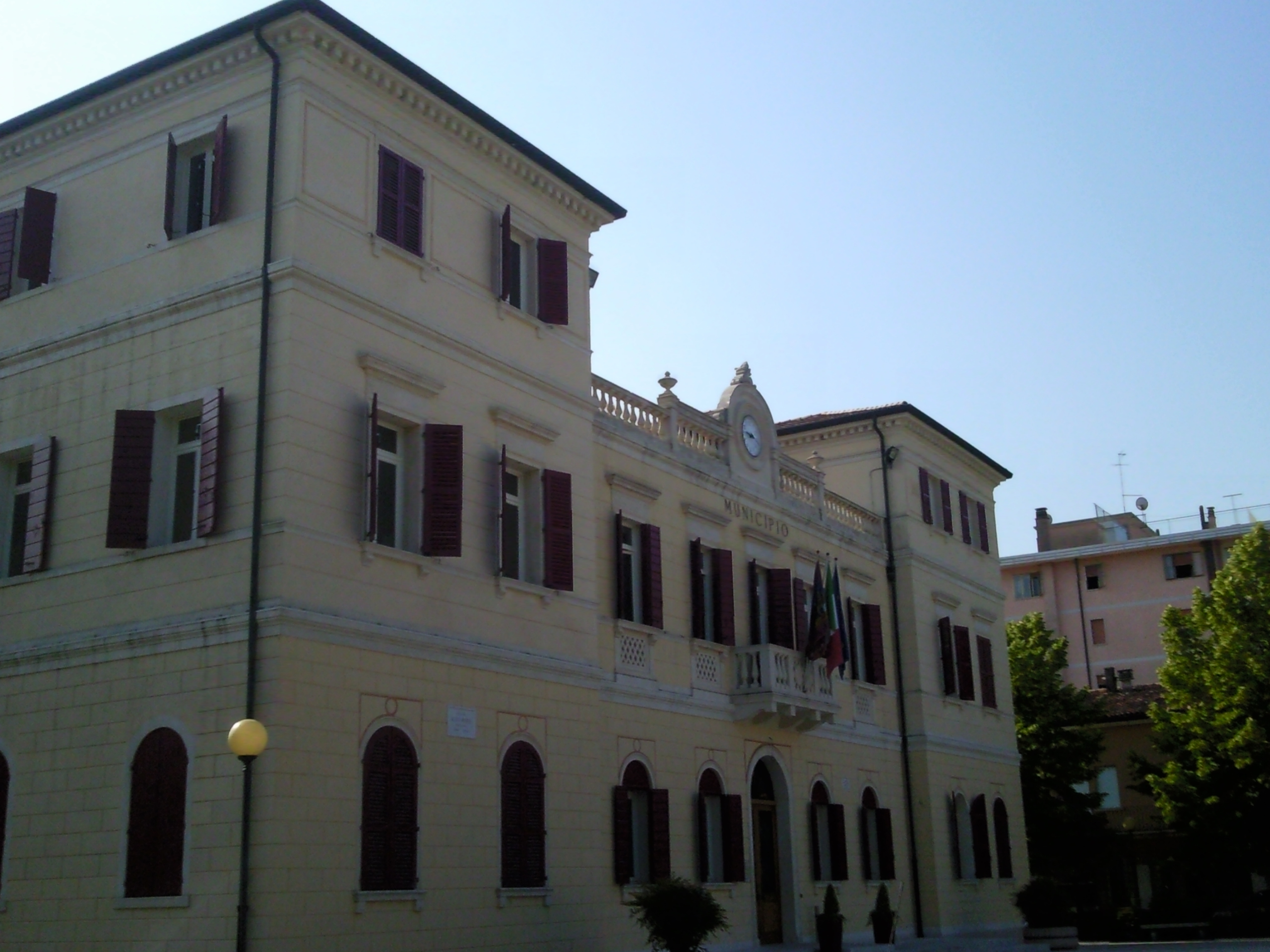 Facciata del municipio di Scorzè (Ve)